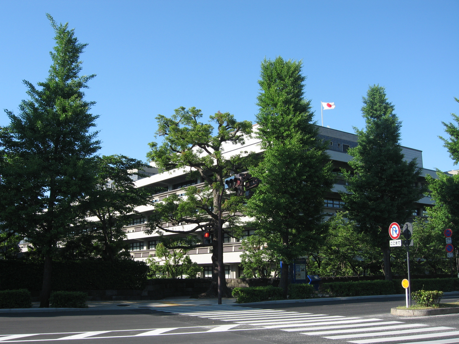 Tokyo Main Library of the National Diet Library, Main building. 1-10-1 Nagatachô, Chiyoda, Tokyo.